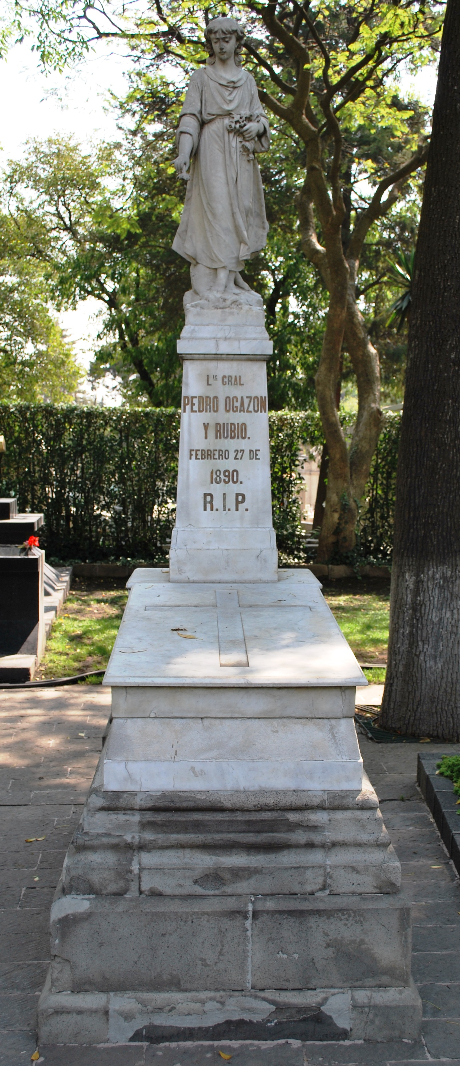 Tomb of Pedro Ogazon y Rubio in the Panteon Civil de Dolores cemetery in Mexico City.